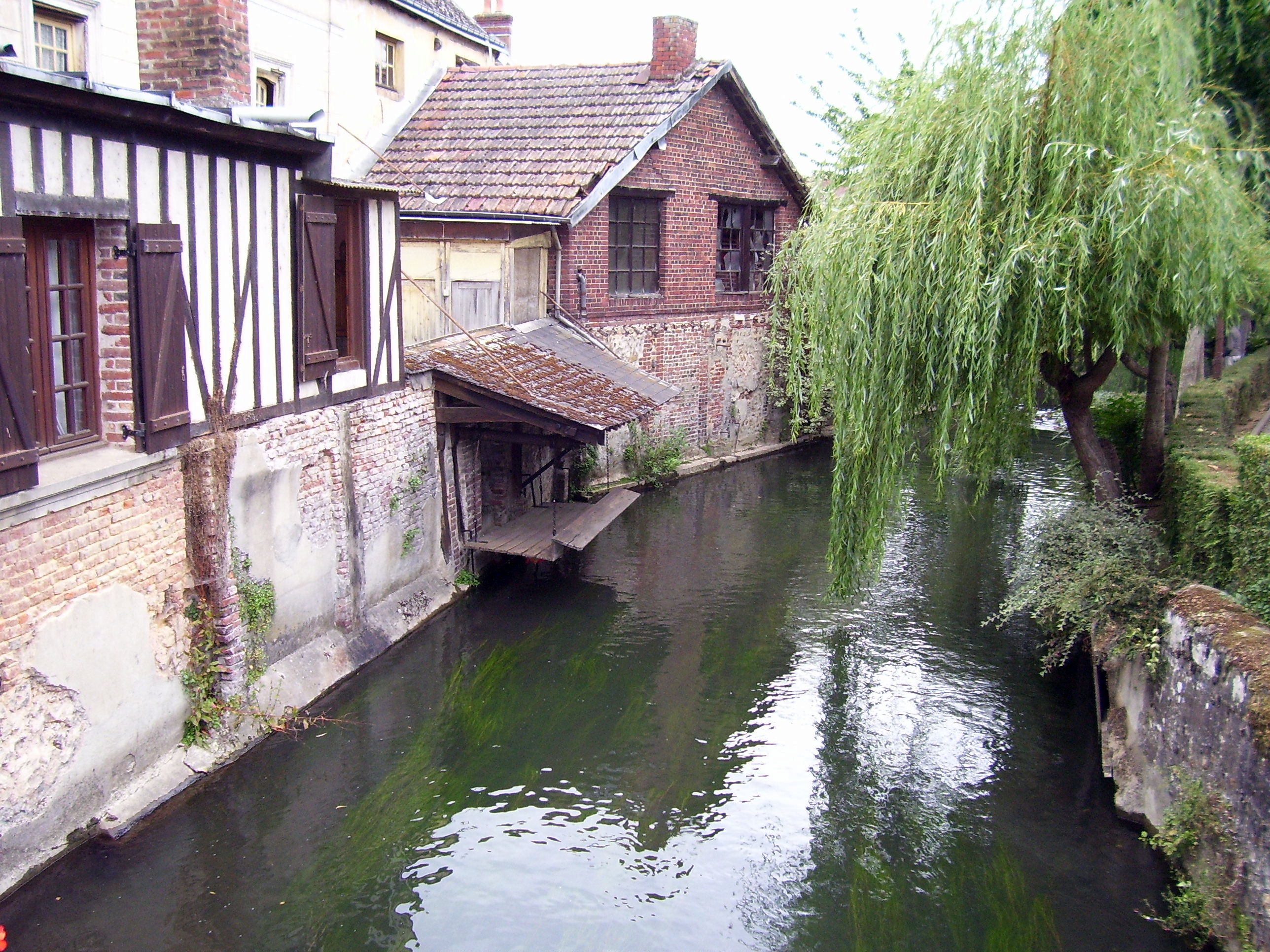 The Charentonne in Bernay (Eure, Haute-Normandie, France).